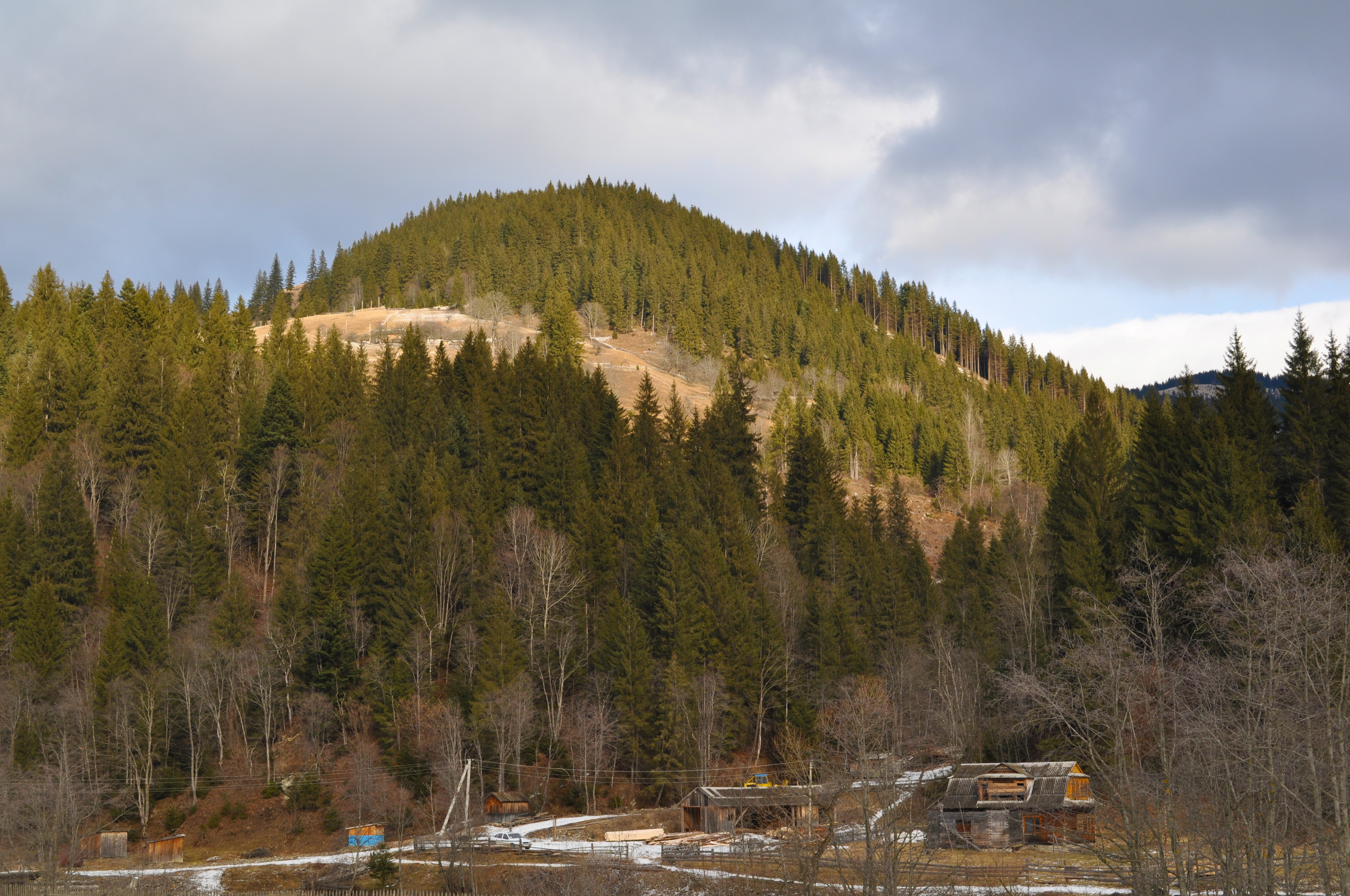 Dzembronya